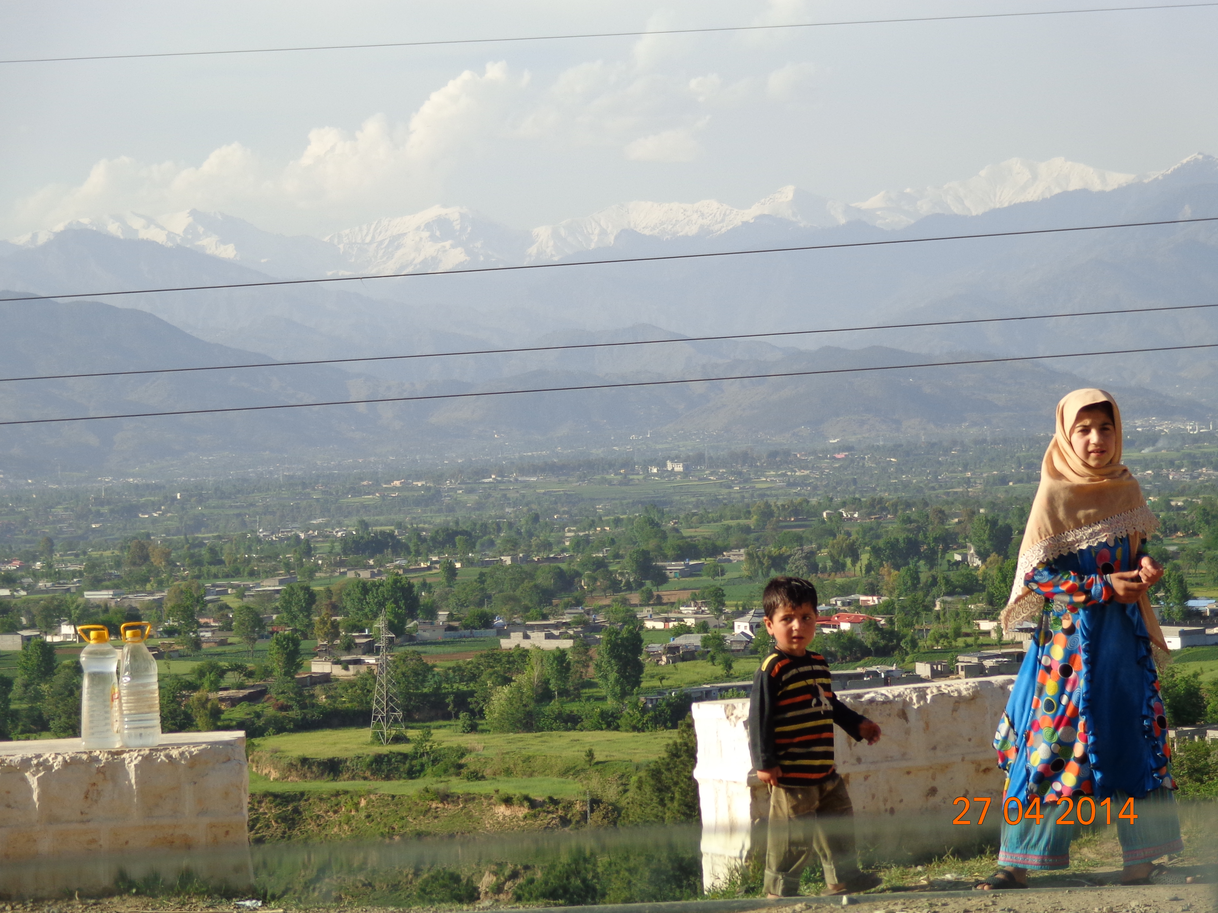 Photographer : Ahmad Abdullah Saqib